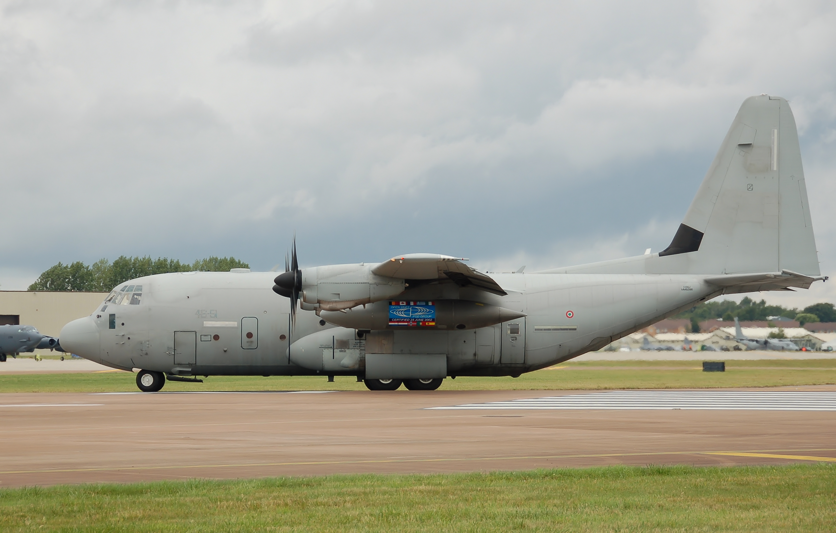 Italian Air Force Lockheed C-130J (code 46-51) taxies for takeoff at the 2009 Royal International Air Tattoo, Fairford, Gloucestershire, England.